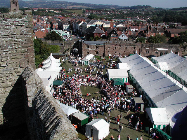 Ludlow from the castle Great Tower. Looking almost due east with the Outer Keep of the castle below and the Gatehouse and Tudor Buildings in the outer wall. Beyond that lies the market square and the heart of this ancient town. To the left the tower of St Laurence's Church can just be seen. Ludlow plays host to many events and festivals throughout the year, and this was the occasion of the Food and Drink Festival, held in early September. The competition taking place within the circle of people was the waiters race - two waiters in full regalia carrying trays of food and drinks had to race around an obstacle course which included awkwardly placed tables and "demanding" customers!. More details of the history and building of Ludlow and links to the various festival websites can be found at